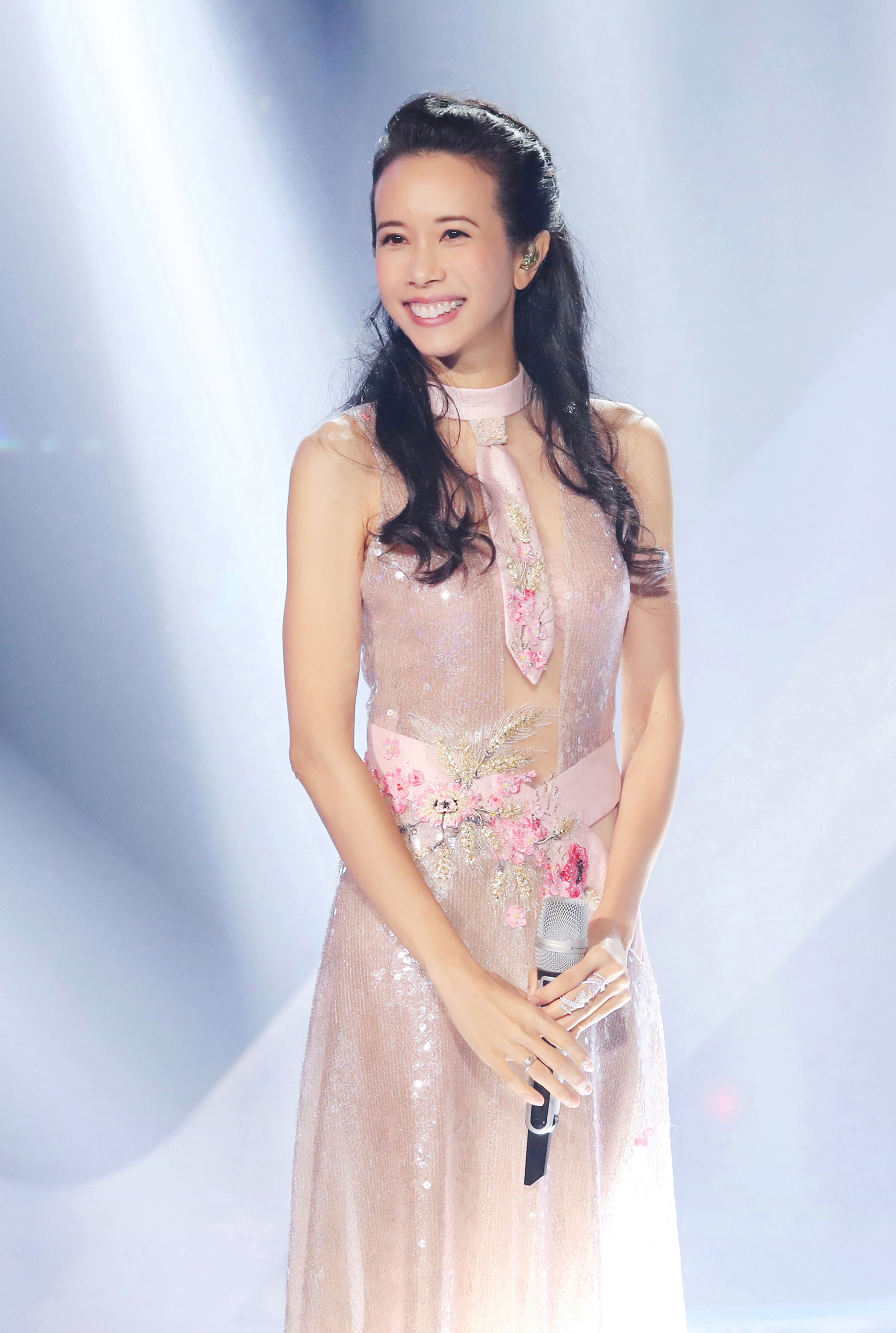 Karen Mok (莫文蔚) at the TV show The Singing Battle (天籁之战) on 31 Oct 2016, the picture as taken in Suzhou